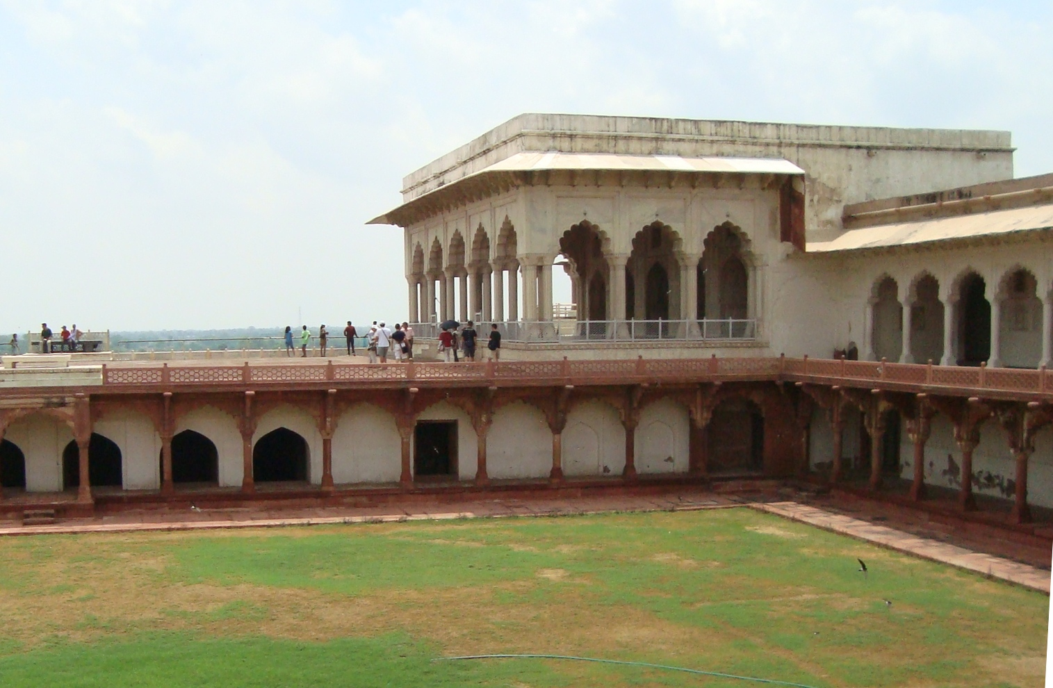 Agra Fort - Diwan-e Khas Side View